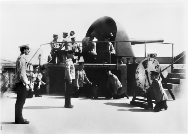 AWM caption: "Australia's first shot in the Great War. The crew at the c 1890, probably 6 inch coastal gun, which fired on the German merchant ship, SS Pfalz at 1245 hours, 5 August 1914. Back row, left to right: Gunner (Gnr) A Brown Sergeant (Sgt) C R Carter Gnr W Carlin Gnr F J Mealey Bombardier (Bdr) J Purdue Gnr J Russell Bdr J Edwards Bdr H L Hope Front row: Gnr A Murray Captain M D Williams Gnr V Quirk Corporal (Cpl) W W Young Company Sergeant Major E H Wheeler Cpl J J Jack Gnr J Gregory Gnr J Ryan The ship had been trying to escape into Bass Straight through Port Phillip Heads until stopped by this warning shot. " Comment : The gun is a BL 6 inch Mk VII.